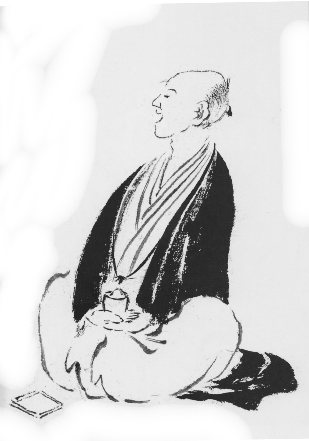 Portrait Aoki Mokubei by Tanomura